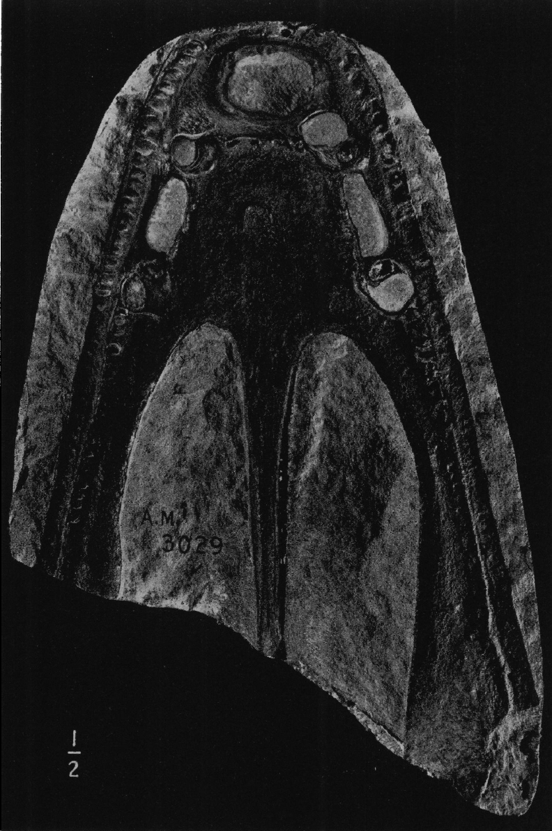 Cast of a Stanocephalosaurus birdi palate taken from a natural impression